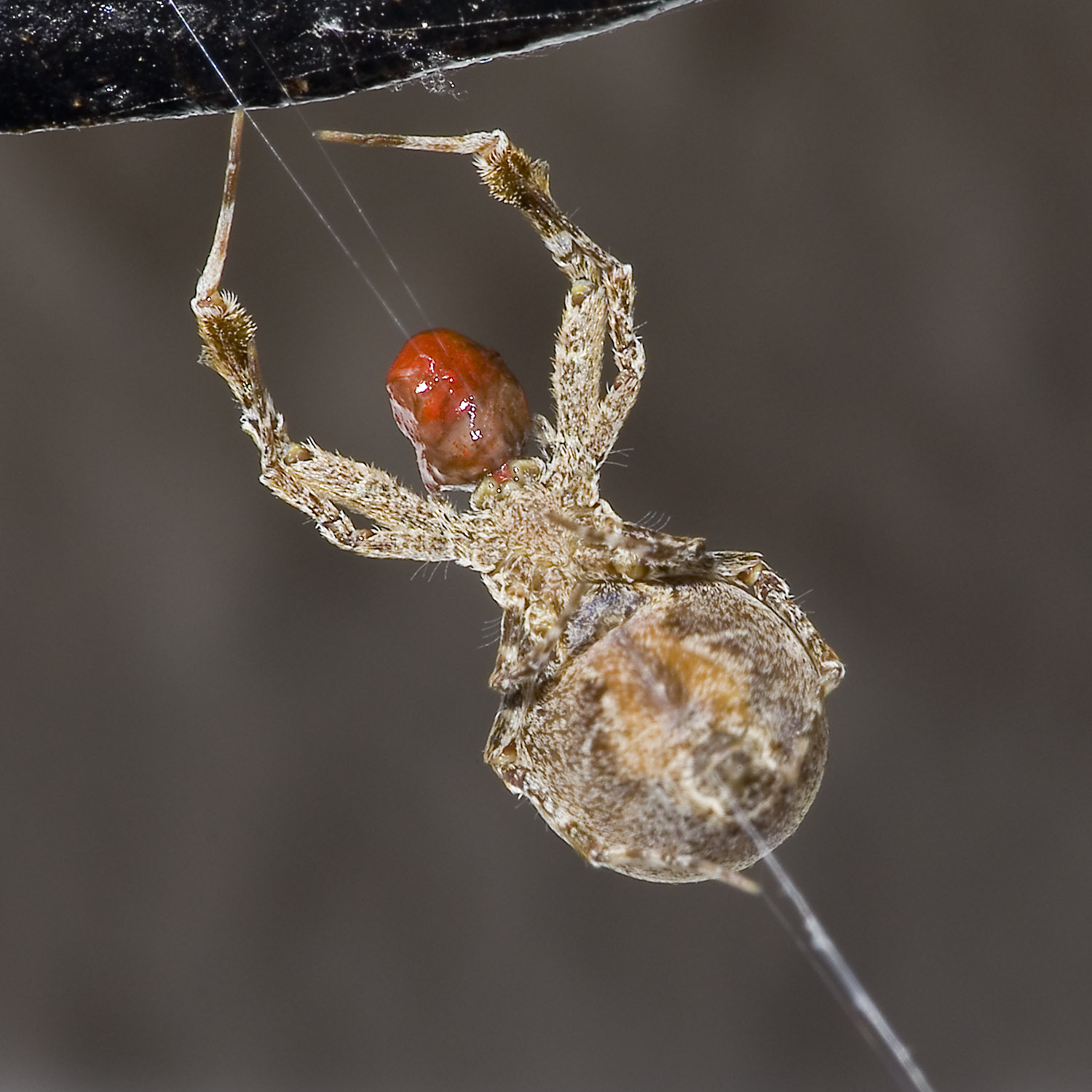 Uloborus.plumipes; Many thanks to Michael Hohner from for determination! Location: Dresden (Saxony, Germany) 5/180L Focal Length: 180 mm Exposure: 1/100 f16 Film / Speed: ISO 100 Comment: Canon Flash 580EX